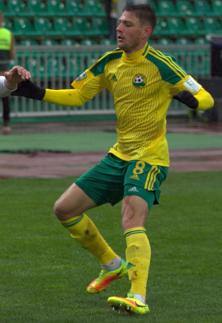 Oleg Aleynik with FC Kuban Krasnodar in a game against FC Neftekhimik Nizhnekamsk.